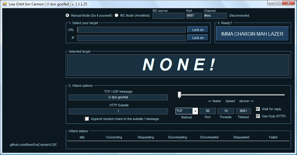 Screenshot of the LOIC with the ion cannon depiction edited out for copyright reasons.